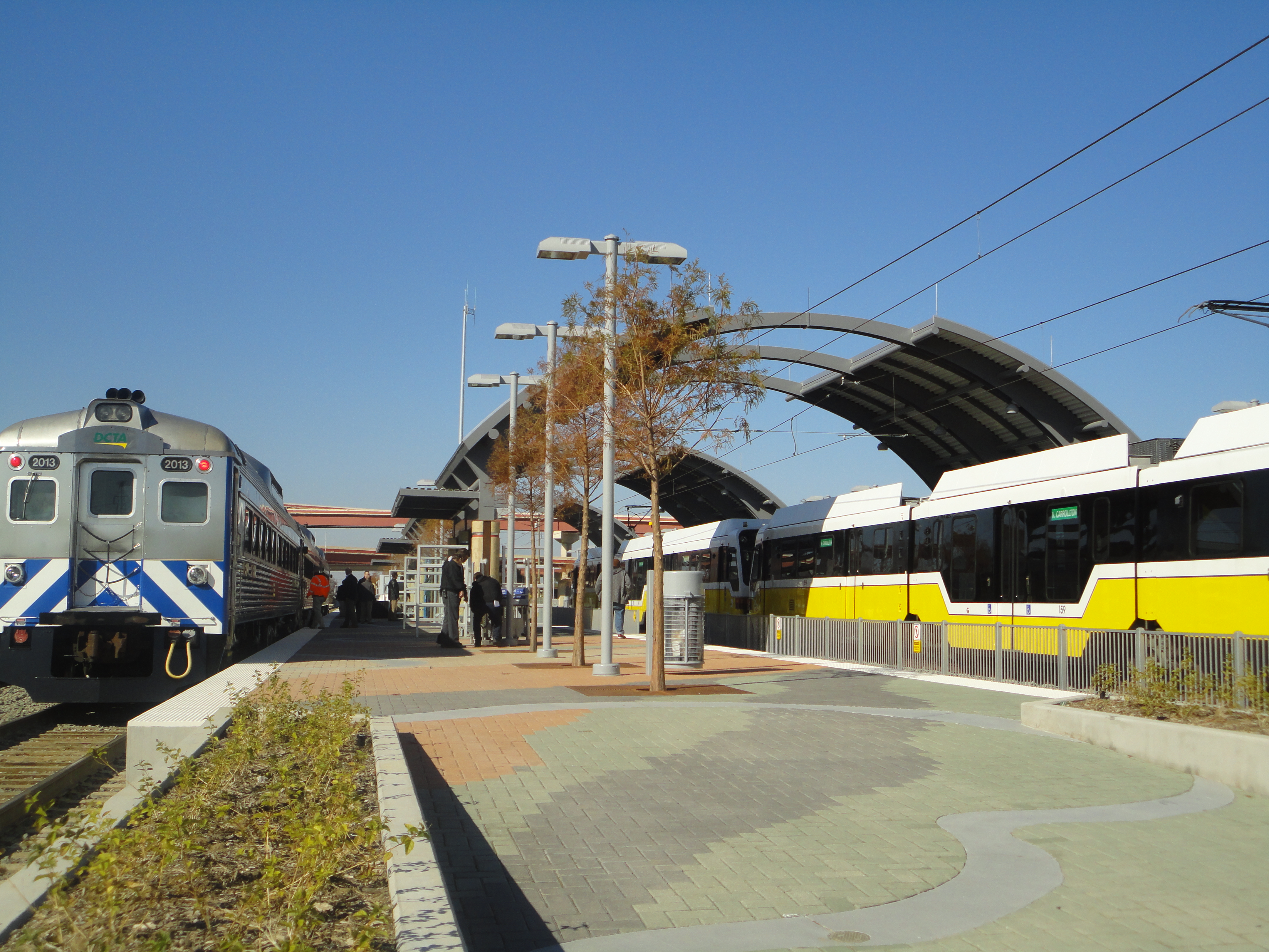 DART Light Rail train and A-train at Trinity Mills station